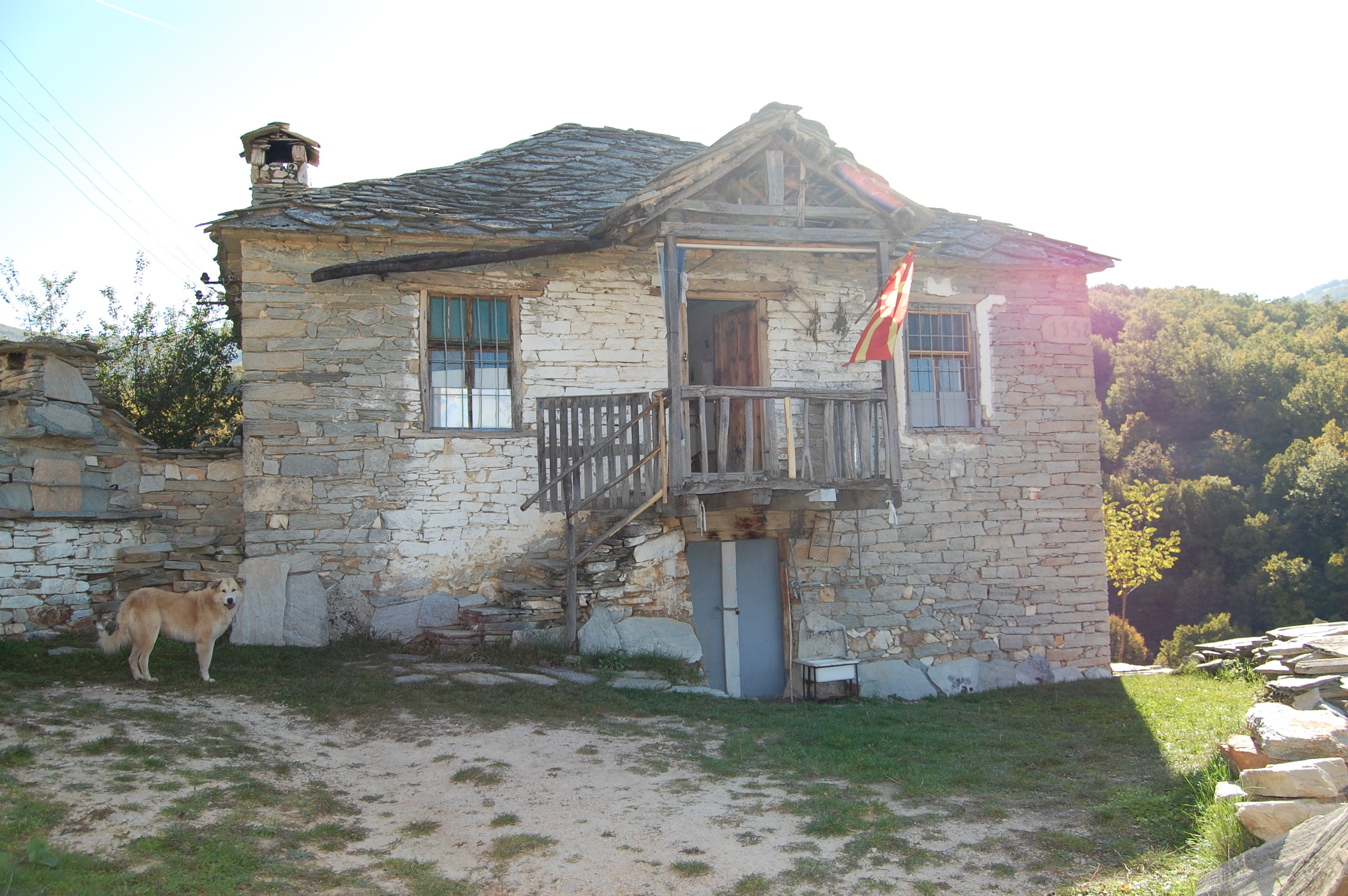 village of Veprčani in Mariovo region, Macedonia